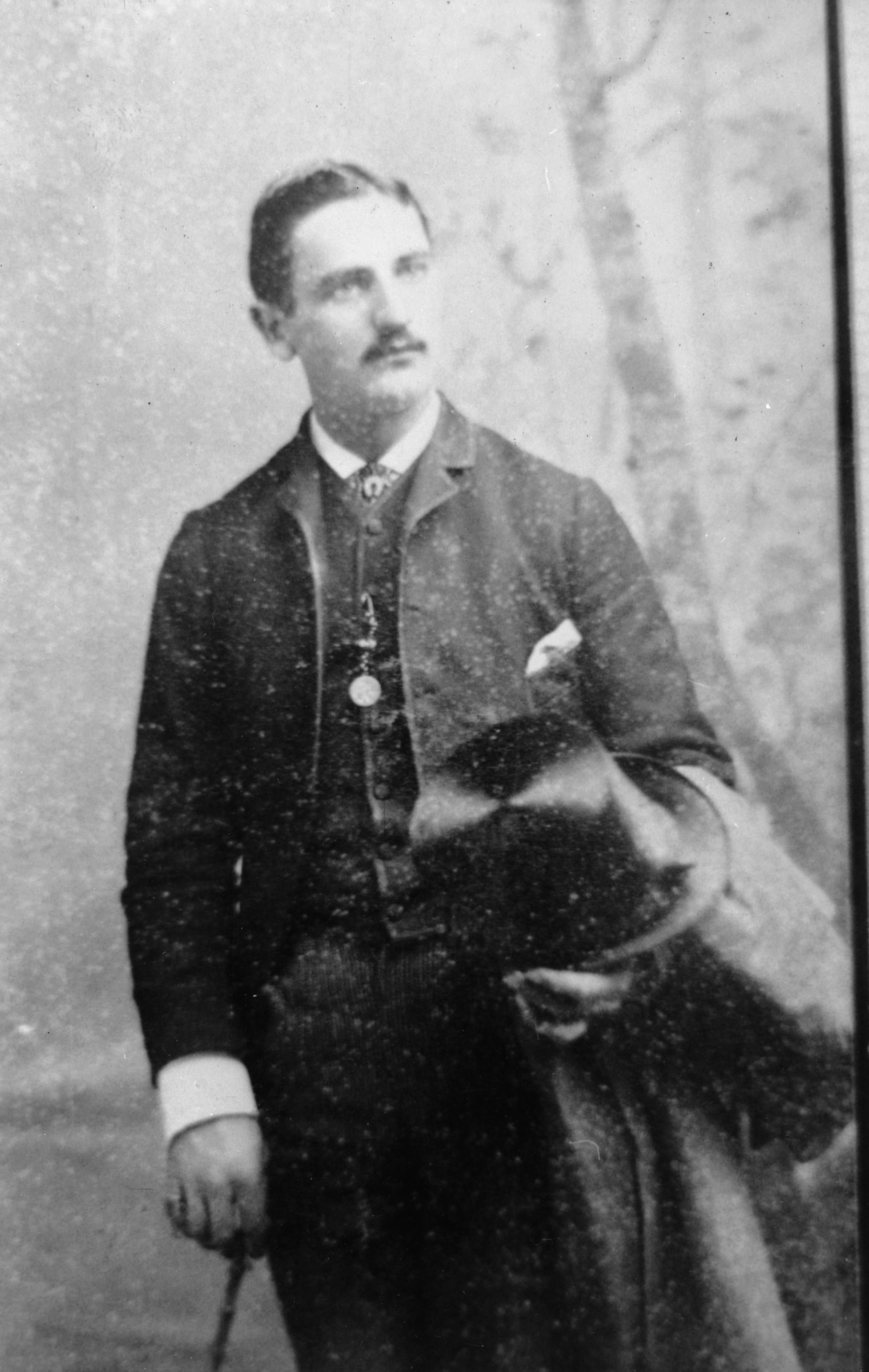 W H Clayton in 1860 while living in Tasmania.